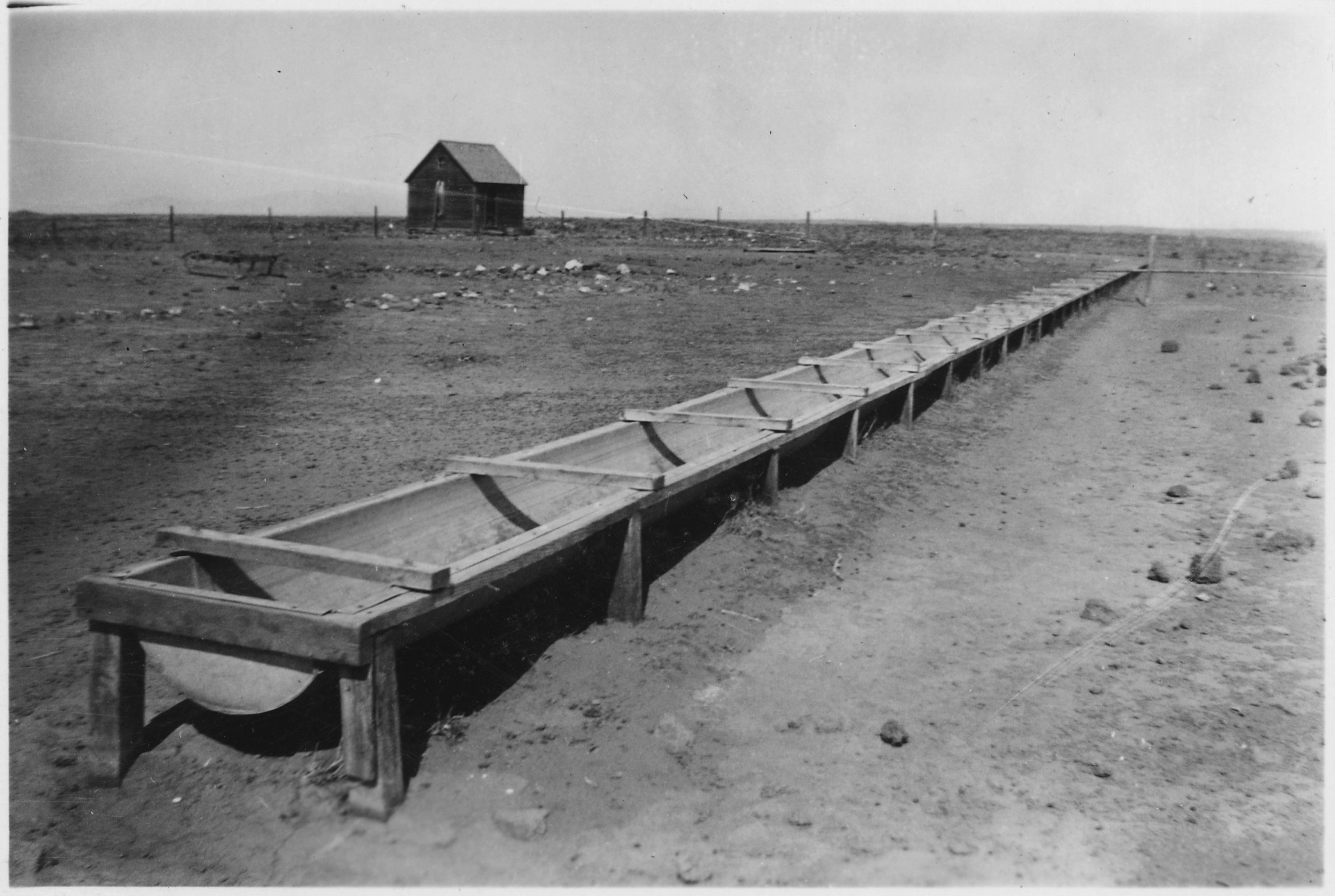 Scope and content: Camp DG 4 is located one mile southwest of Springfield, Idaho in the SE 1/4 Section 14, Township 4 South, Range 32 East. It is occupied by CCC Company 990 from Big Sur, State Park 12, Monterey District, California. The work area of this camp lies in Grazing District No. 3. It is located about one mile from the rail head. Construction of the Camp was begun by the advanced detail on May 1. It was occupied by the main body May 15. Field work was begun May 30.